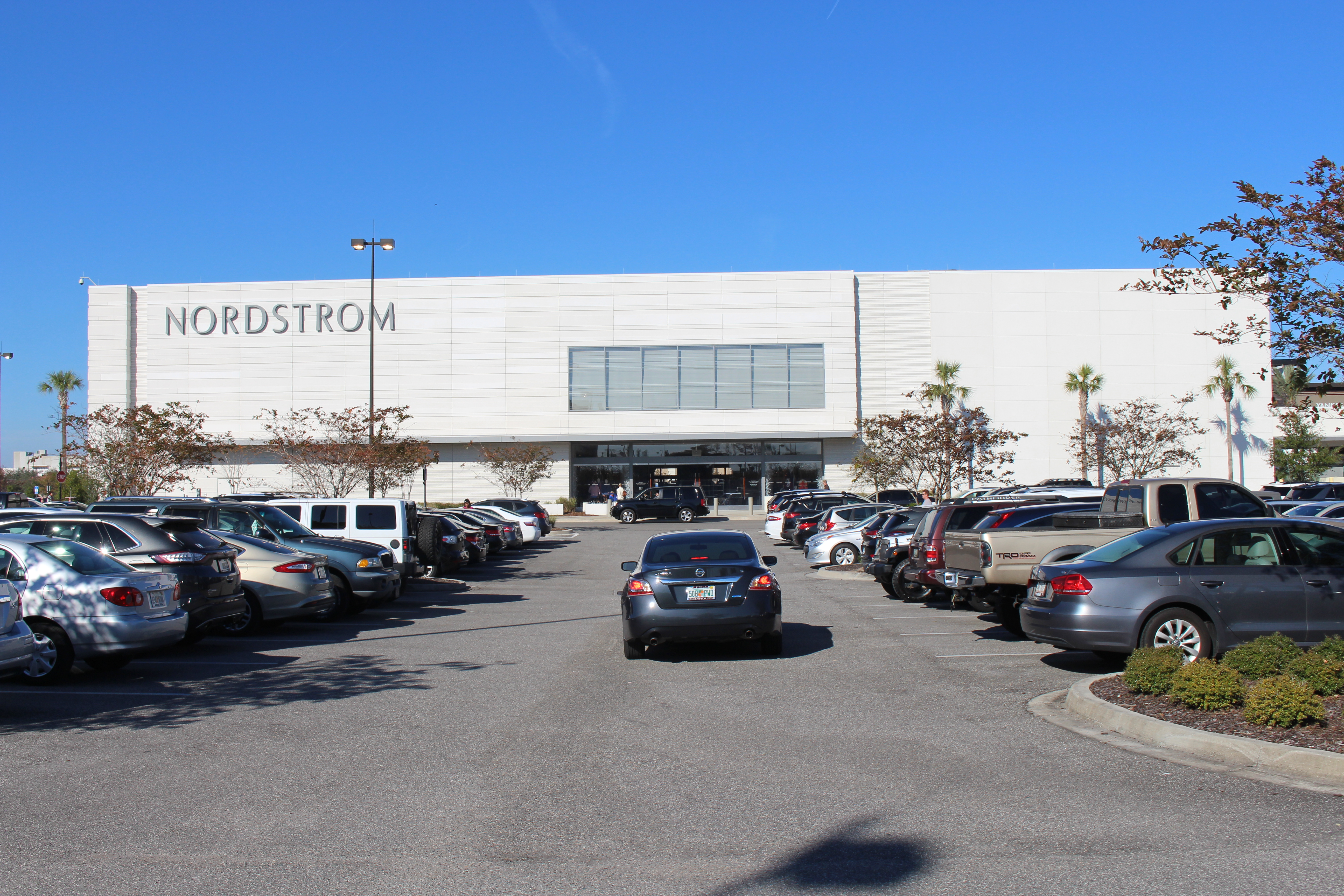 St. Johns Town Center, Jacksonville, Duval County, Florida